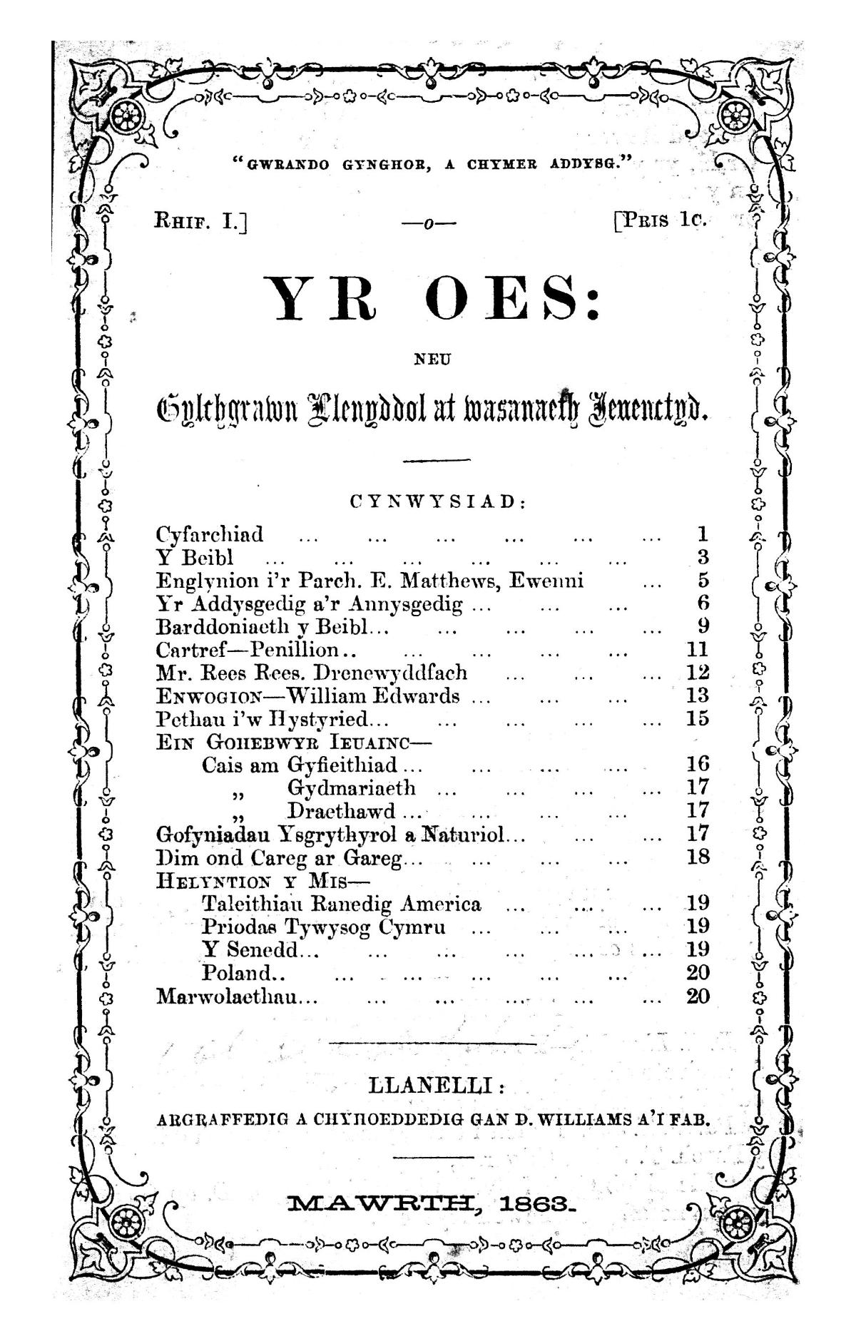 A monthly Welsh language literary and religious periodical intended for the young people of the Calvinistic Methodist denomination. The periodical's main contents were articles on religion and literature, reports on the activities of literary societies, poetry and reviews. The periodical was edited by Thomas James (1827-1899), Benjamin David Thomas (1827-1905) and the poet and historian William Davies (Gwilym Teilo, 1831-1892). Associated titles: Y Cylchgrawn (1864).